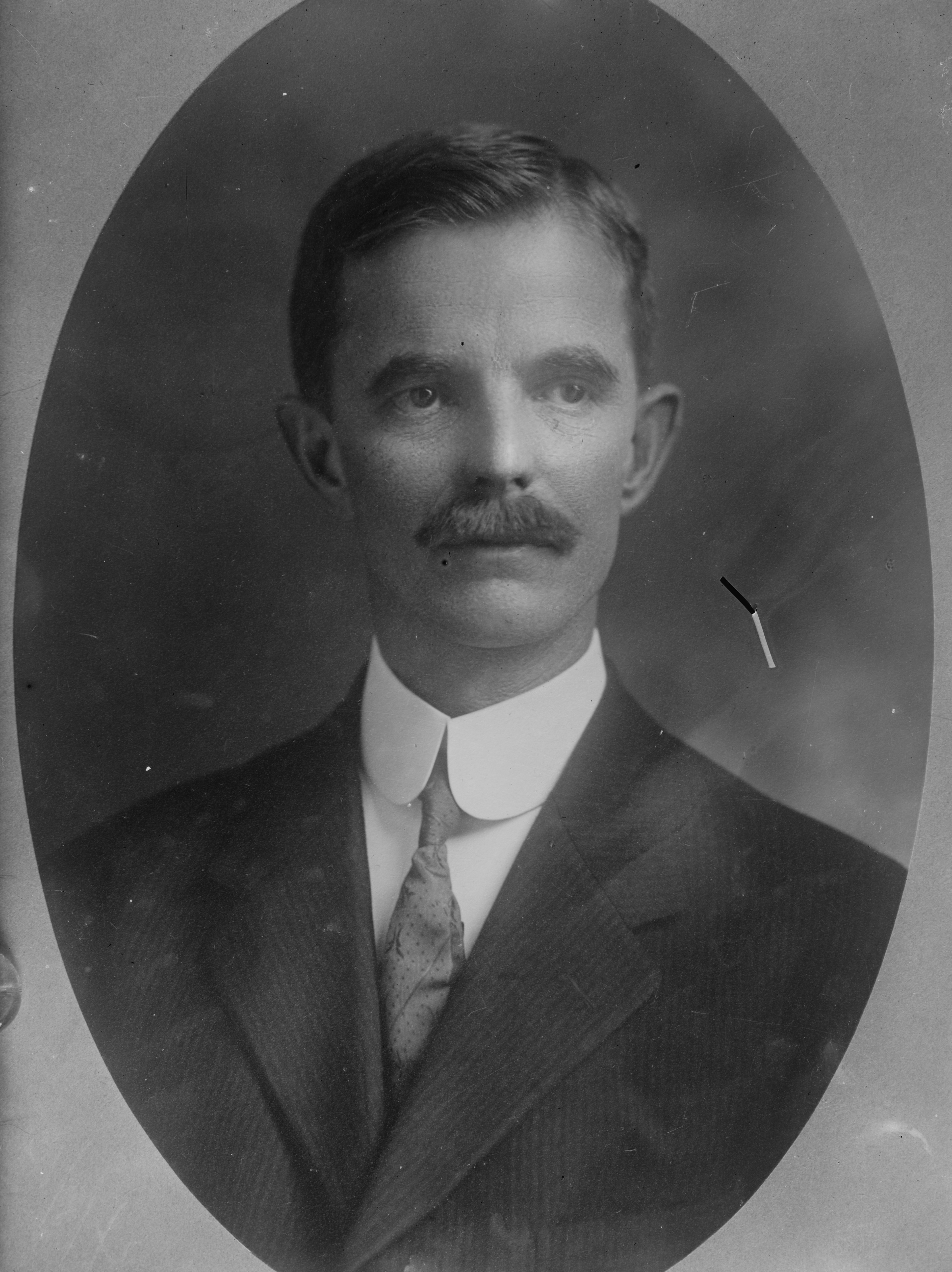 James Smith Havens (1859-1927), U.S. Representative from New York